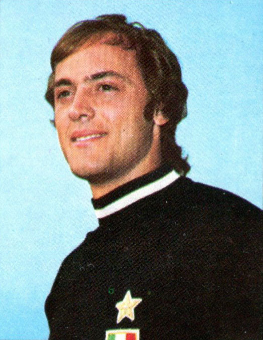 Italian football goalkeeper Giancarlo Alessandrelli with Juventus F.C. in the 1975–76 season.